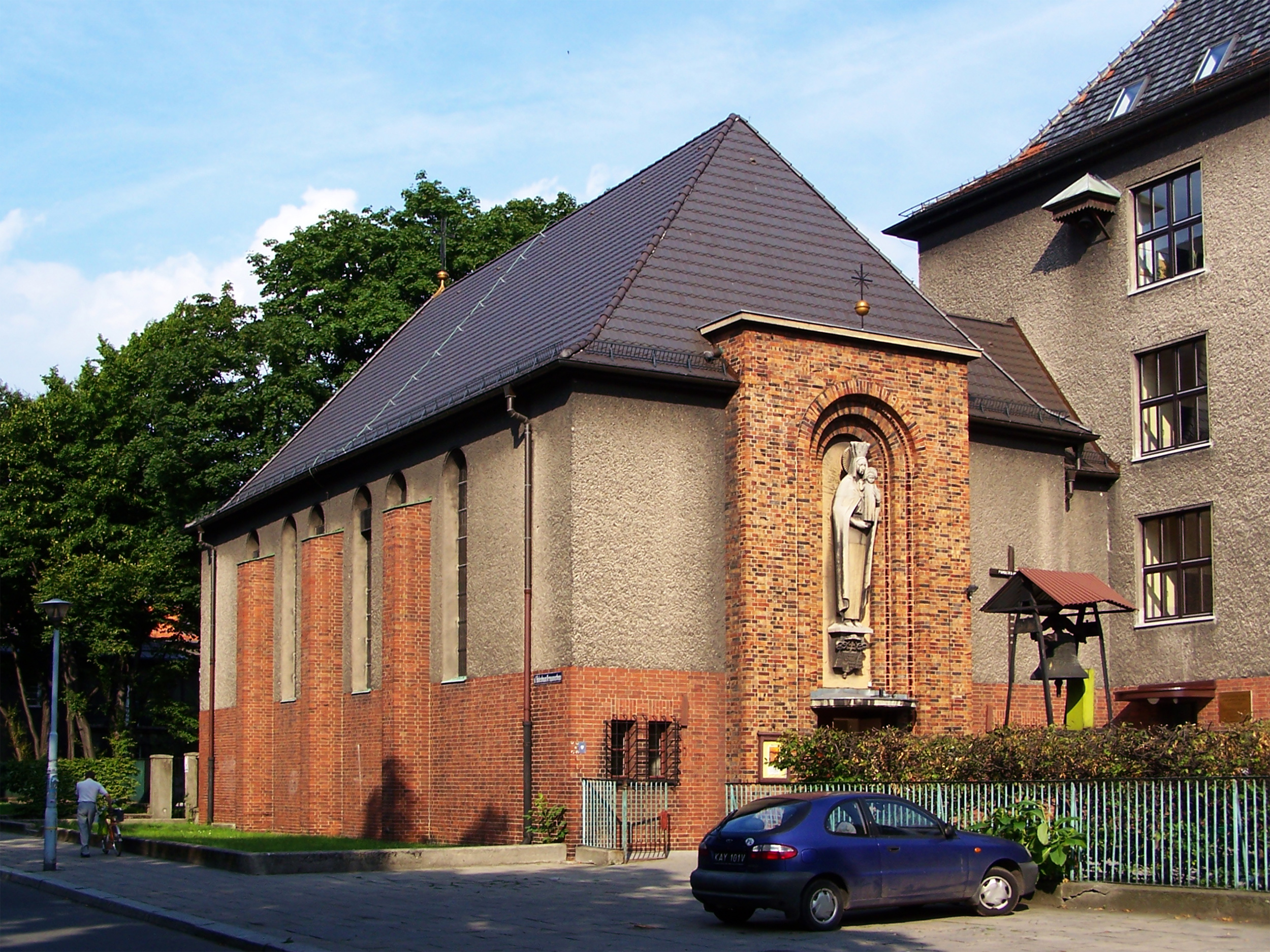 Church in Gliwice (Poland).